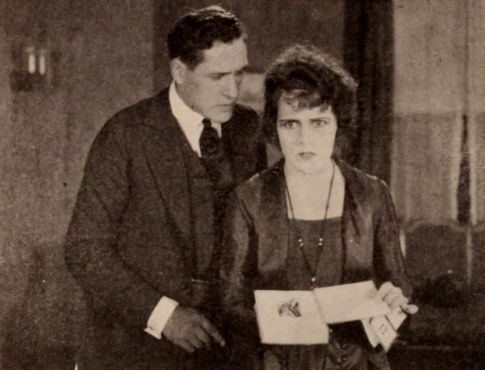 Still from the American film serial The Adventures of Ruth (1919) with Herbert Heyes and Ruth Roland, on page 50 of the January 31, 1920 Exhibitors Herald. Roland is holding a book with a hollowed out center used to conceal items.